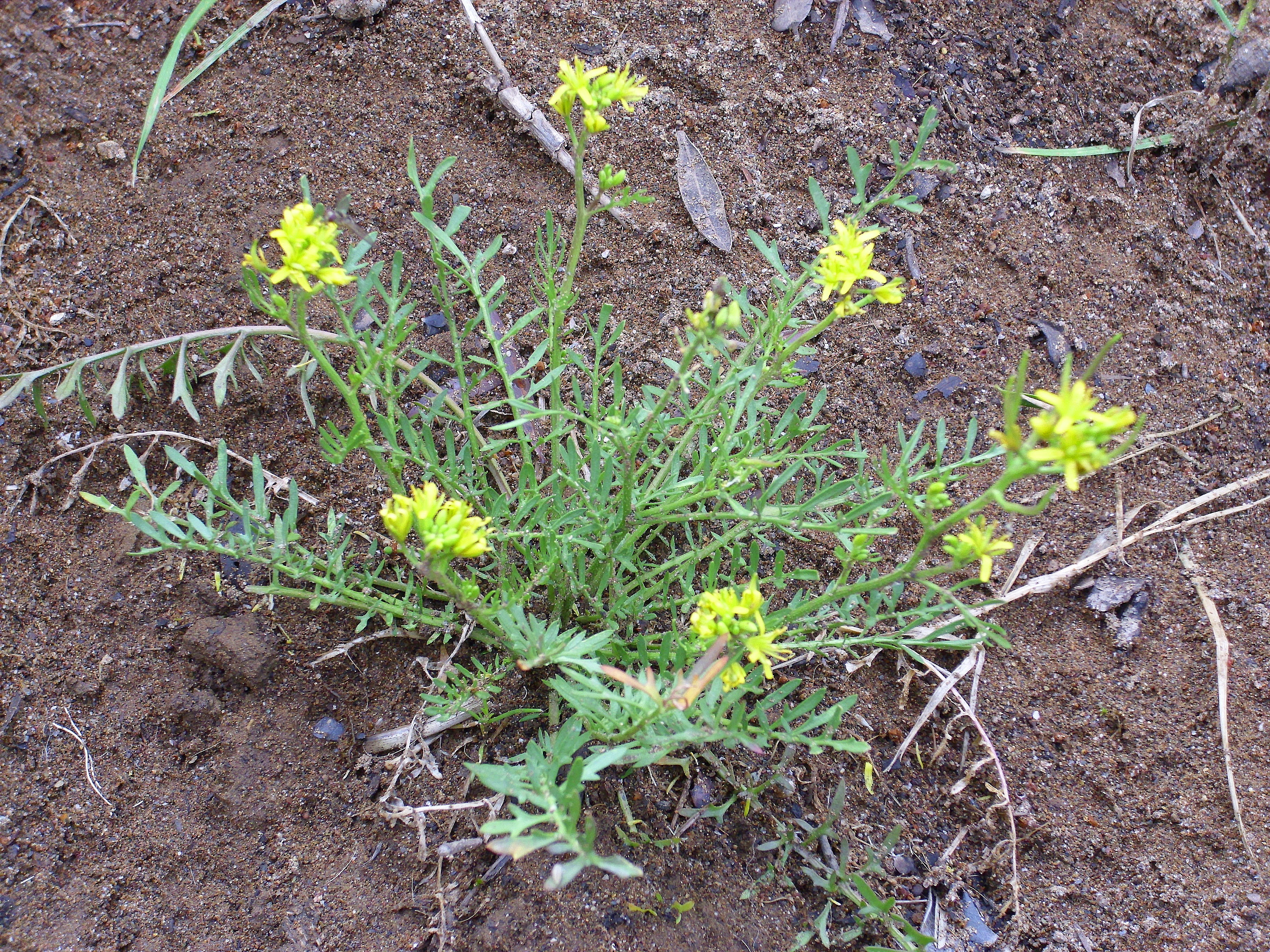 Descurainia sophia habit, Montoro river, Sierra Madrona, Spain